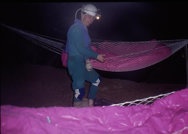 underground hamacs - caving bivouac